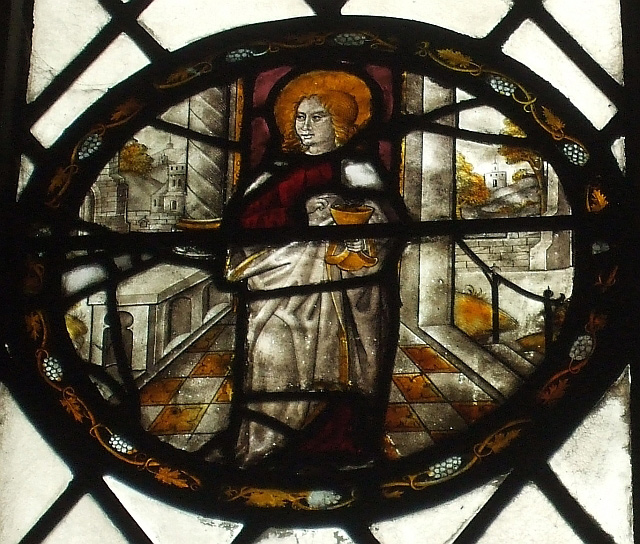 Holy Trinity - Ancient Stained Glass (5). Panel 5: My Biblical knowledge is insufficient to positively identify the scene depicted here, but would suggest perhaps that it is Jesus holding the Holy Grail. I think that this is a particularly attractive roundel, especially the muted various shades of brown used. These colours could suggest a date as early as the C14th for this glass - but I would welcome expert opinion. Previous panel 1314923 Next panel 1314932